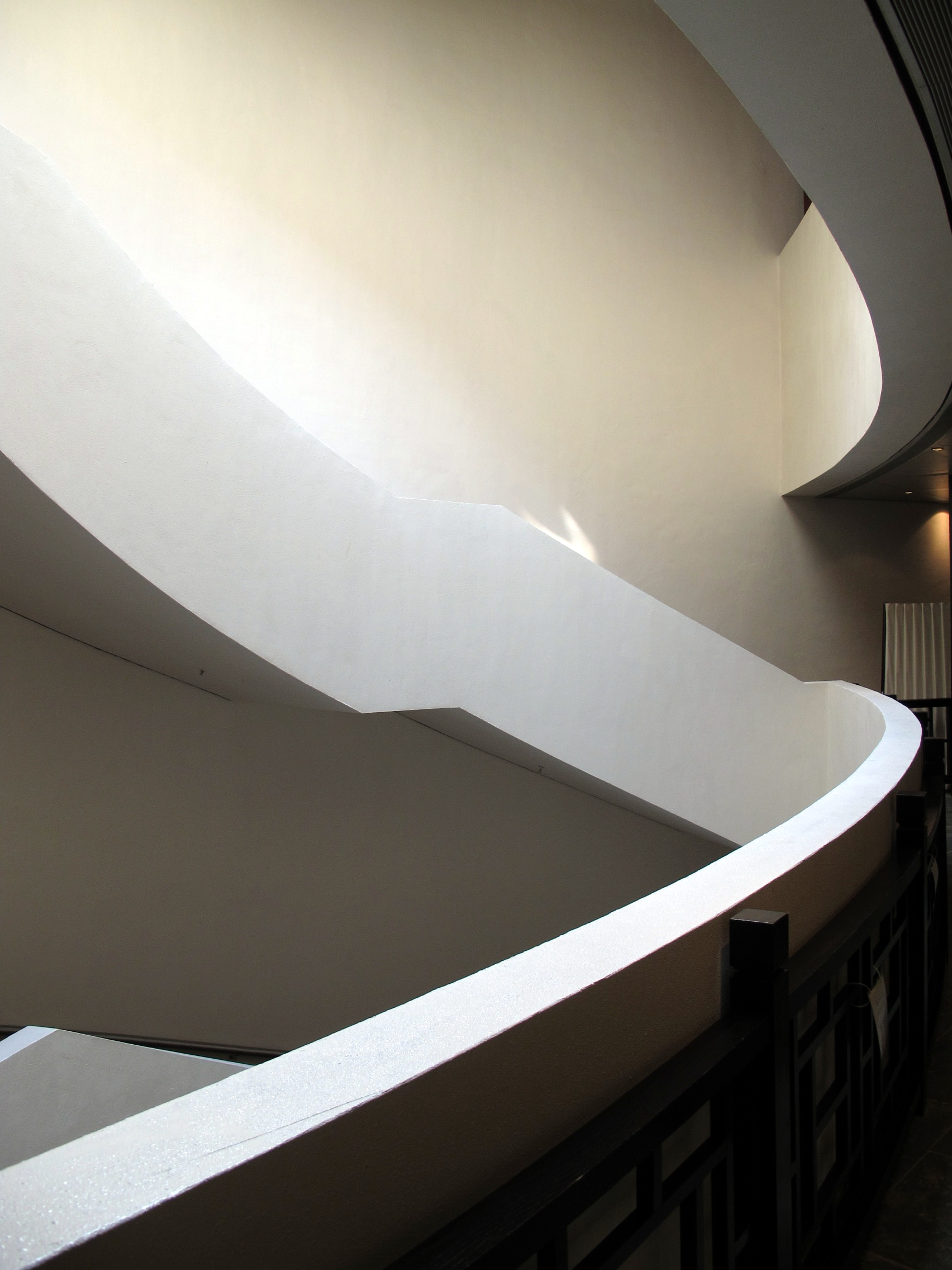 Hong Kong Museum of Art